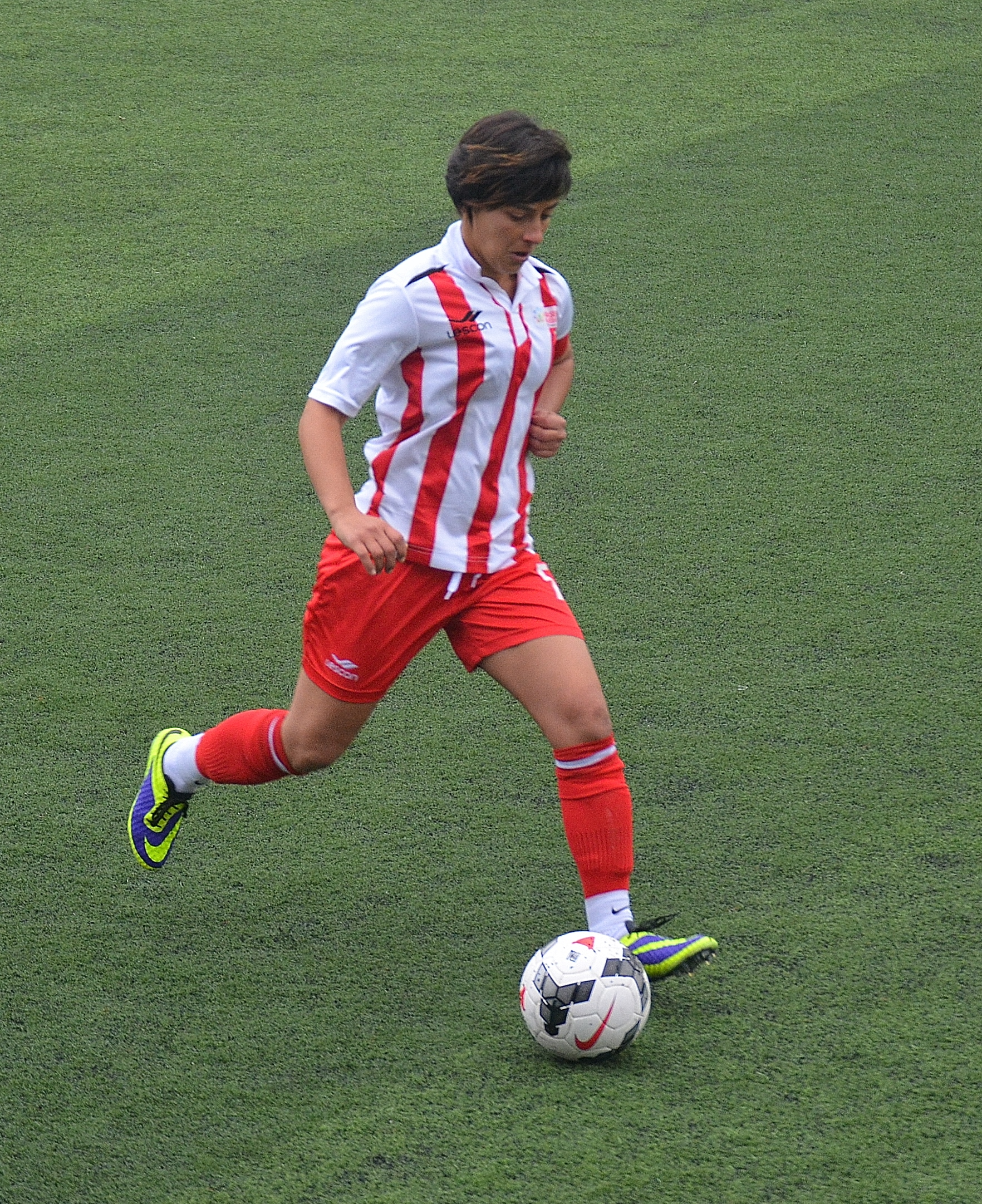 Sevinç Çorku for Ataşehir Belediyespor in the 2014-15 season